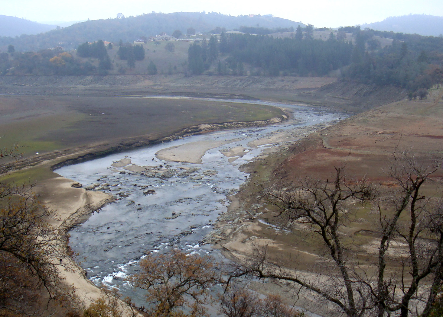 American River — running through the El Dorado hills. In El Dorado County, Northern California